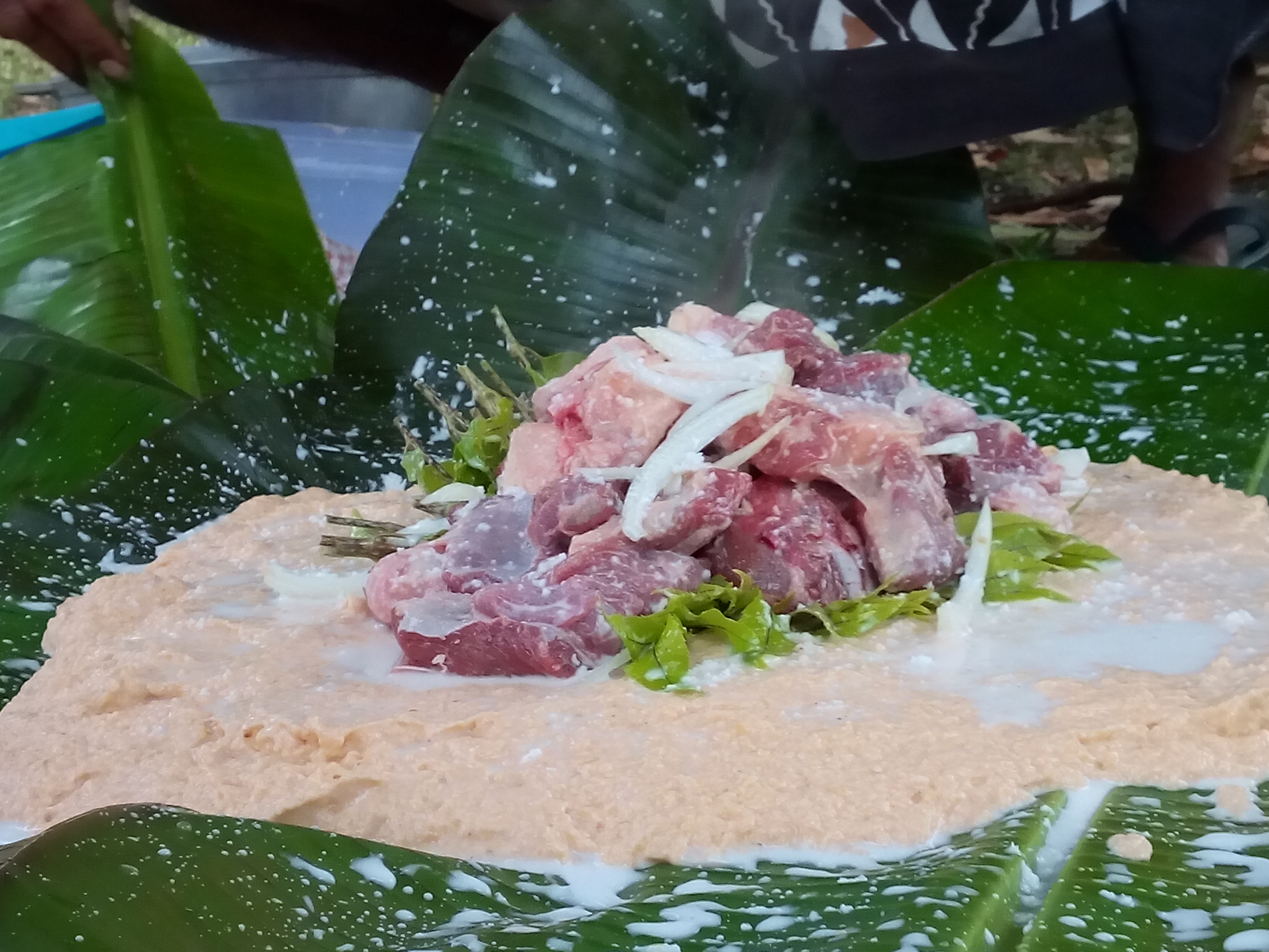 Laplap sosor, traditional dish from Vanuatu (Malekula version).